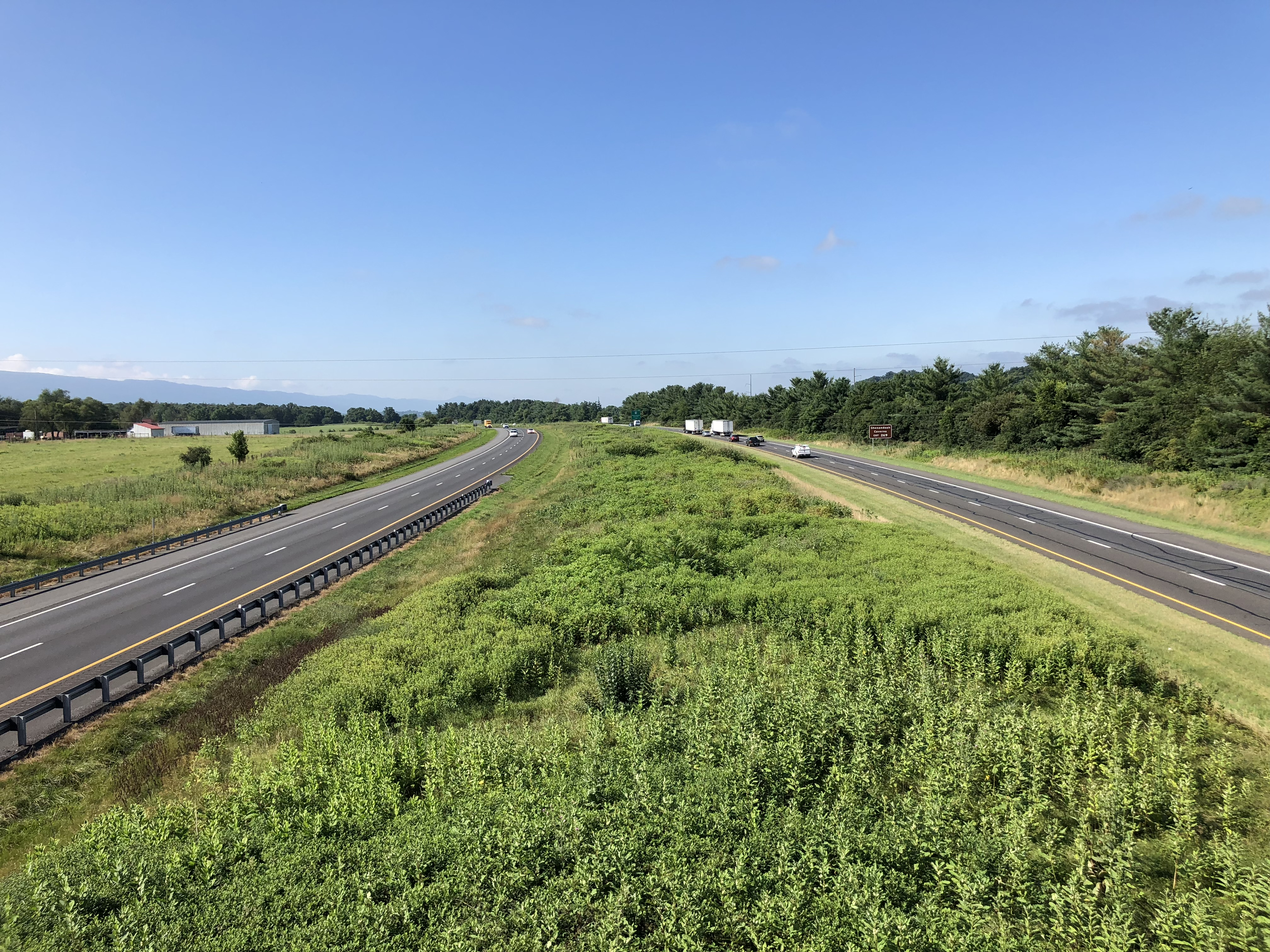 View south along Interstate 81 from the overpass for Virginia State Route 720 (Wissler Road) in Mount Jackson, Shenandoah County, Virginia